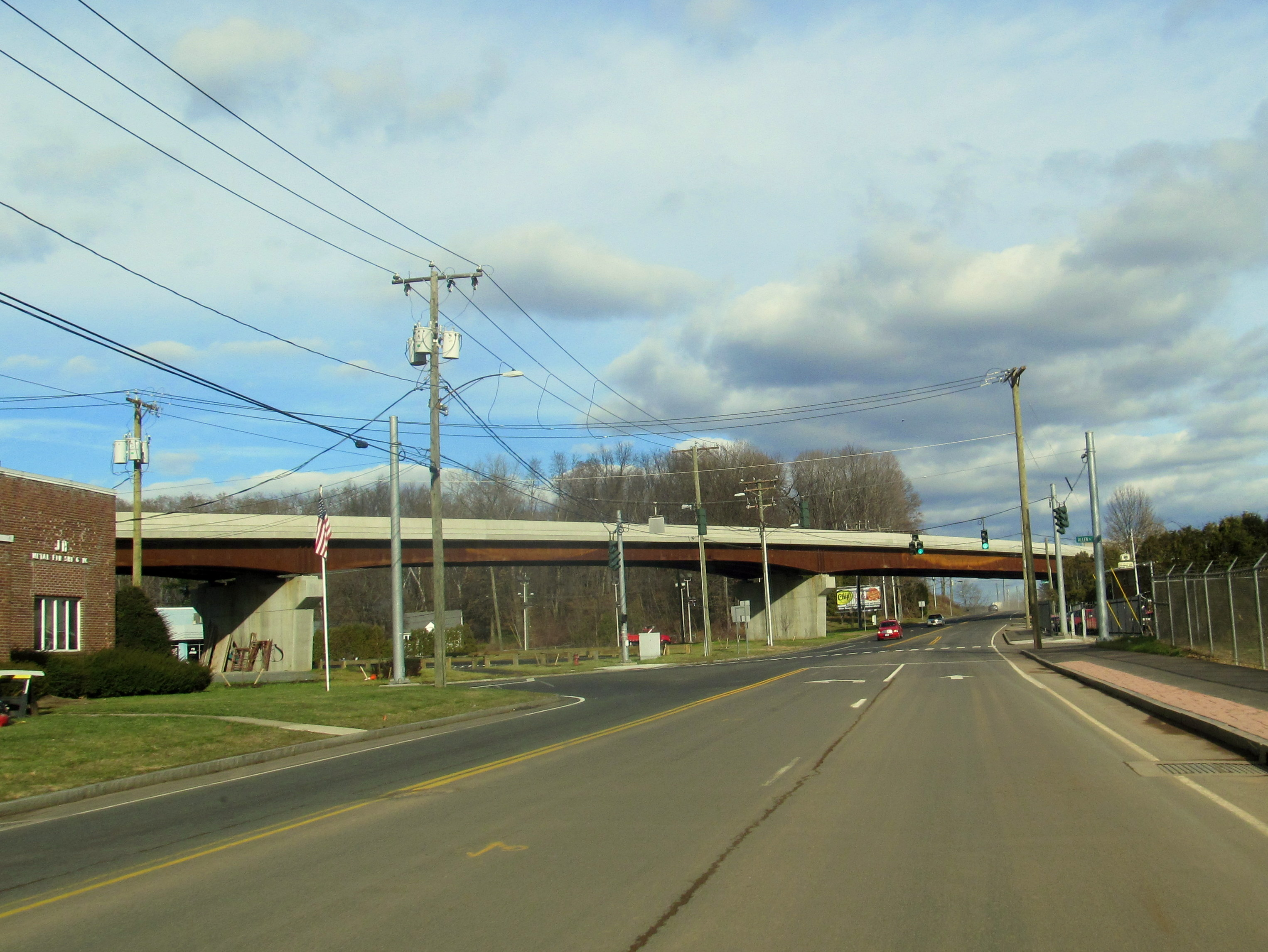 The CTfastrak bridge spanning East Street (pictured) and Allen Street in December 2014